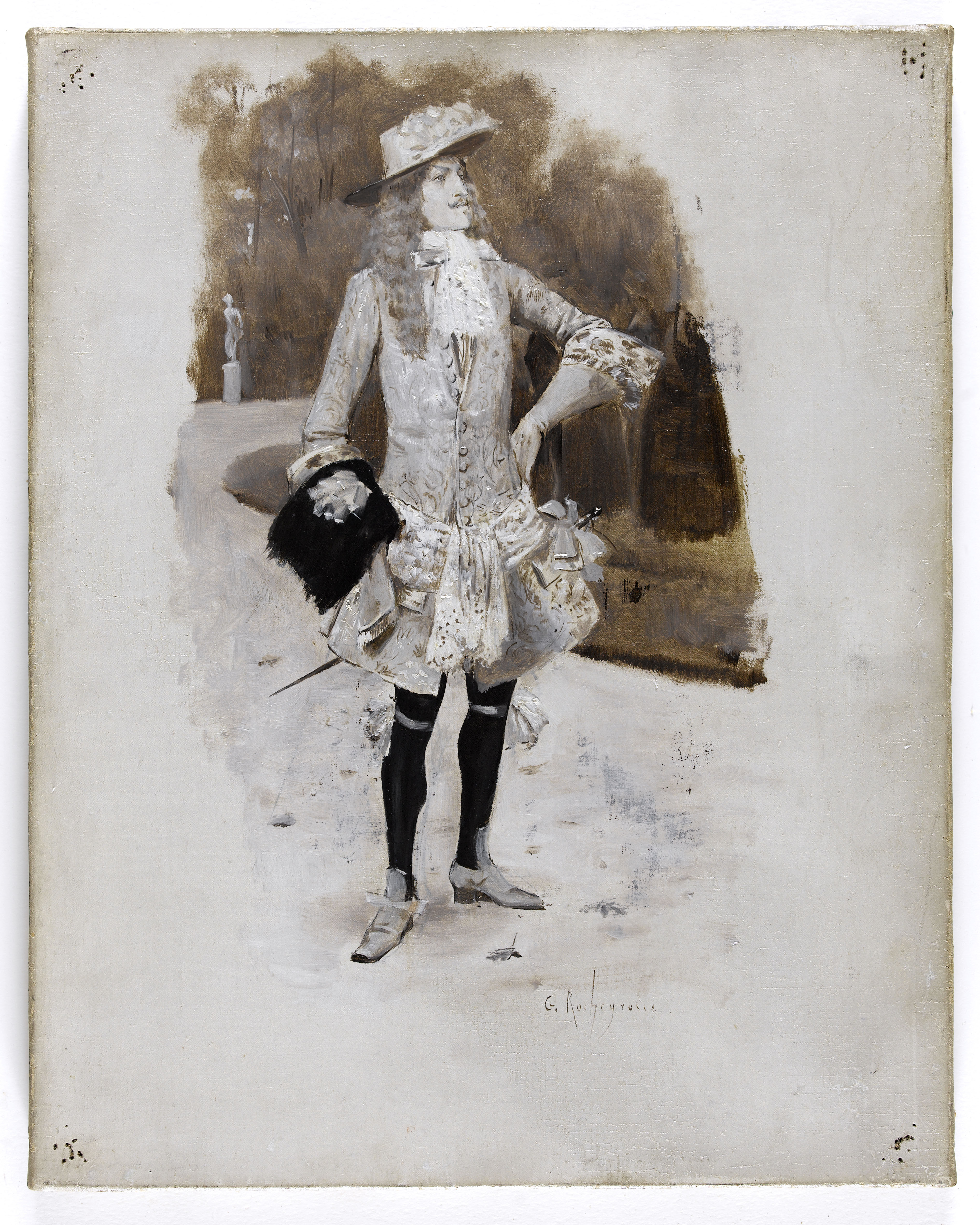 Georges-Antoine Rochegrosse (1859-1938). Lord David Dirry-Moir. Illustration pour "L'Homme qui rit". Huile sur toile. Fin XIXème. Paris, Maison de Victor Hugo.